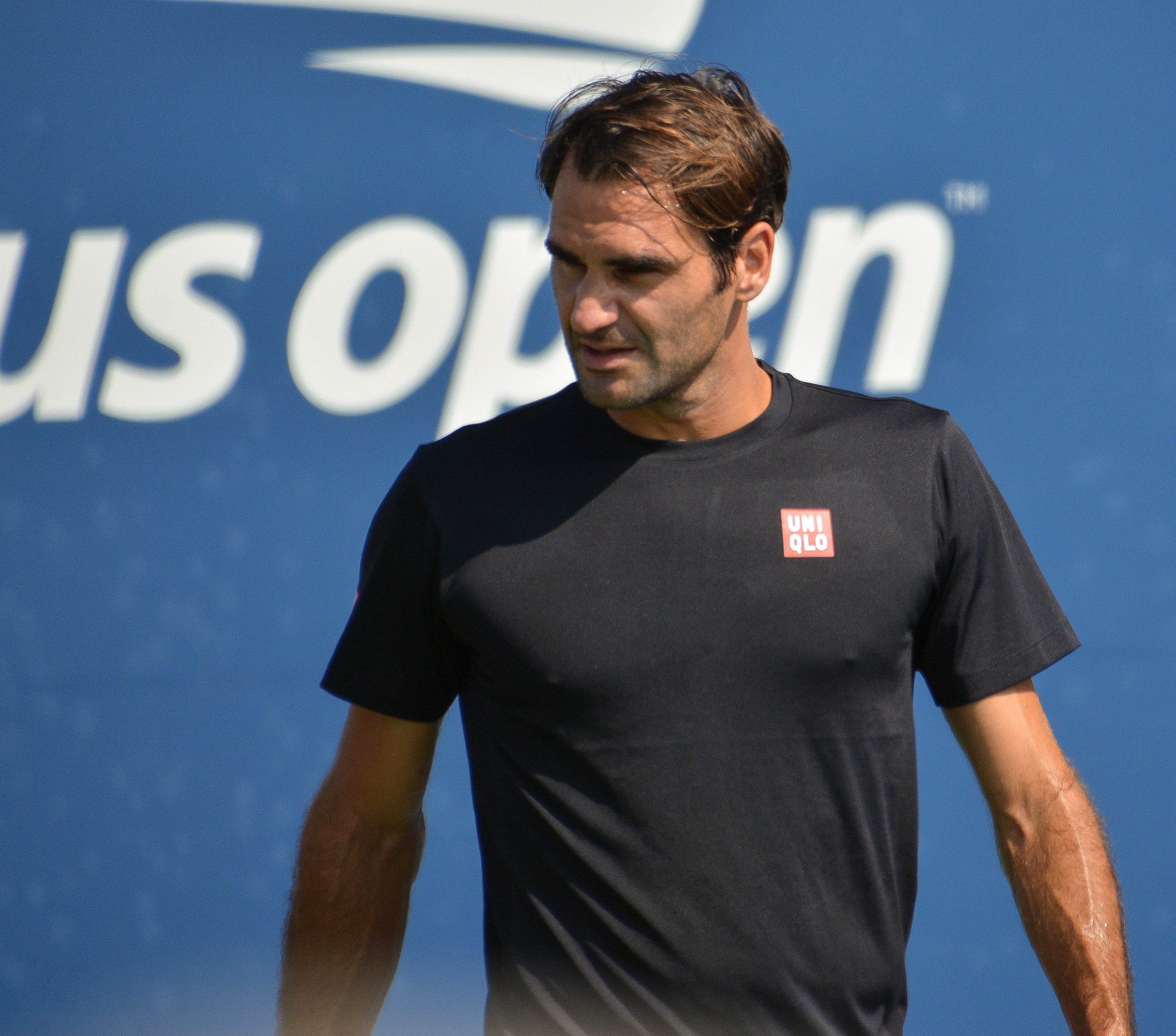 US Open – Practice day, Sunday 26th August 2018